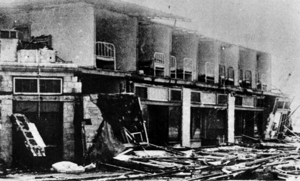 Walls torn from the Premier Hotel in Lake Park, Florida, after the 1928 hurricane